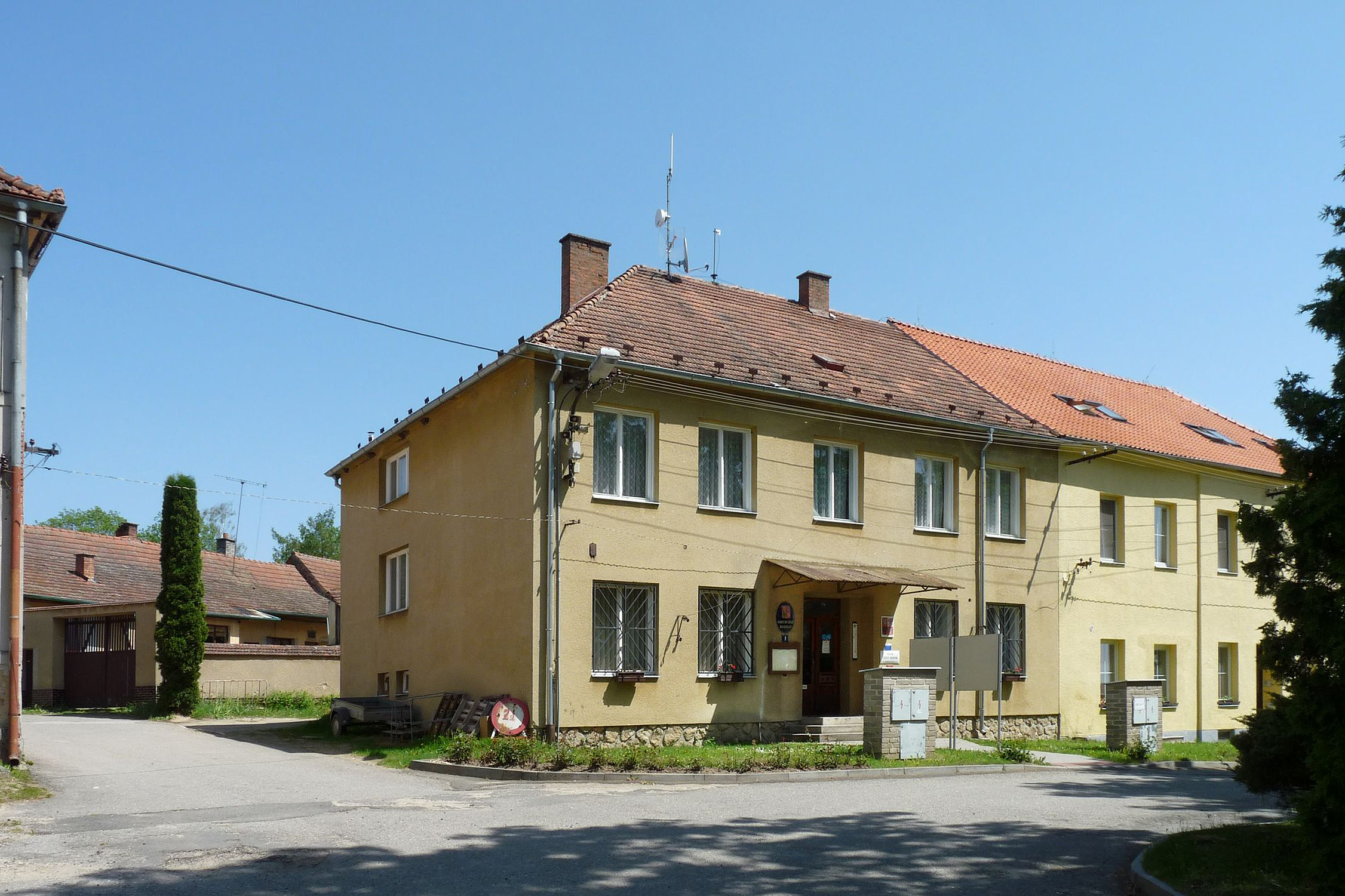 Municipal office building in the municipality of Budislav, Tábor District, South Bohemian Region, Czech Republic.